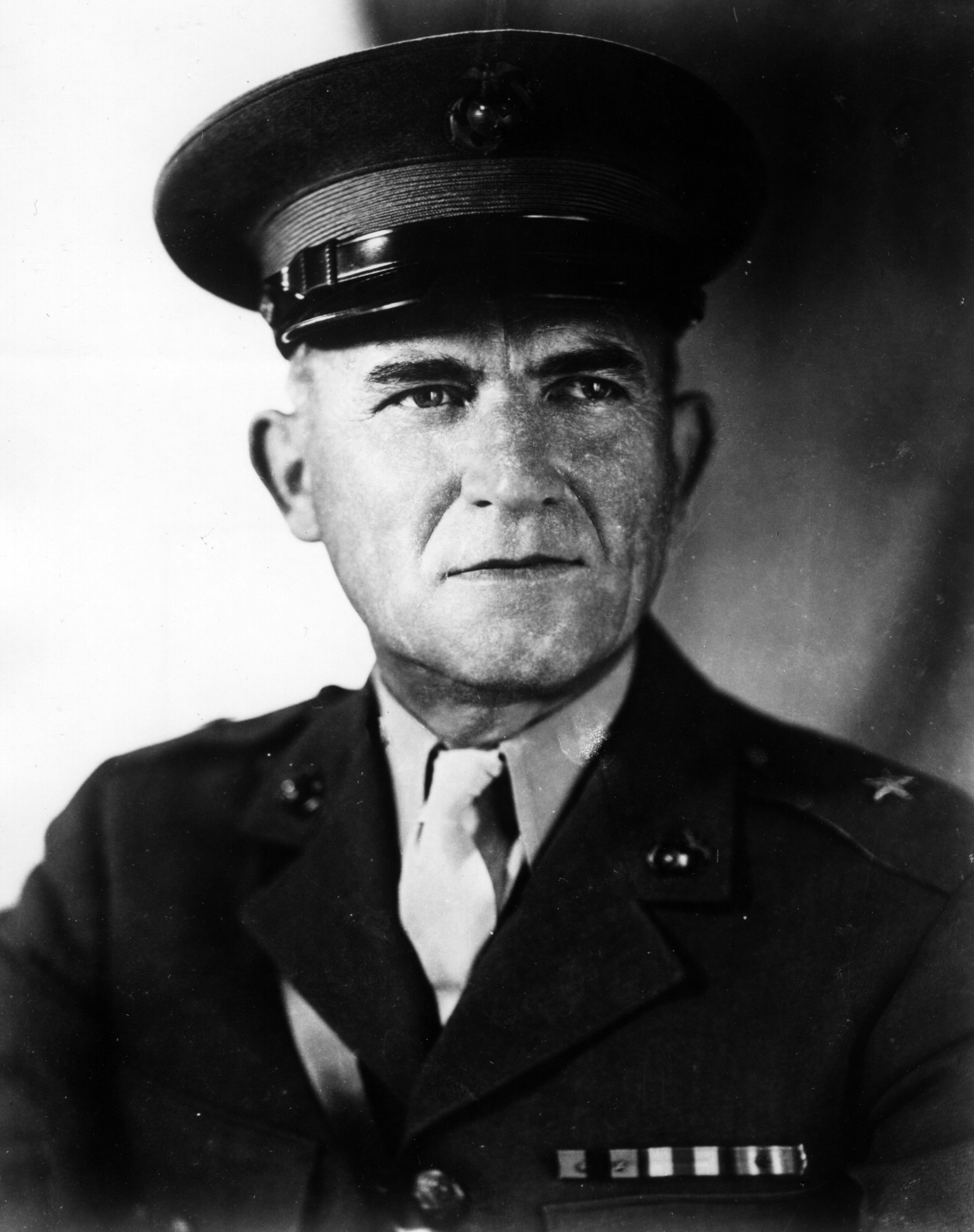 Harry Kleinbeck Pickett (January 9, 1888 - March 19, 1965) was a decorated officer of the United States Marine Corps with the rank of Major General. He is most noted for his service during the training of Marine units during World War II. He finished his career as Commanding general of Troop Training Unit, Amphibious Training Command, Pacific Fleet. Defense Department Photo (Marine Corps) 307189